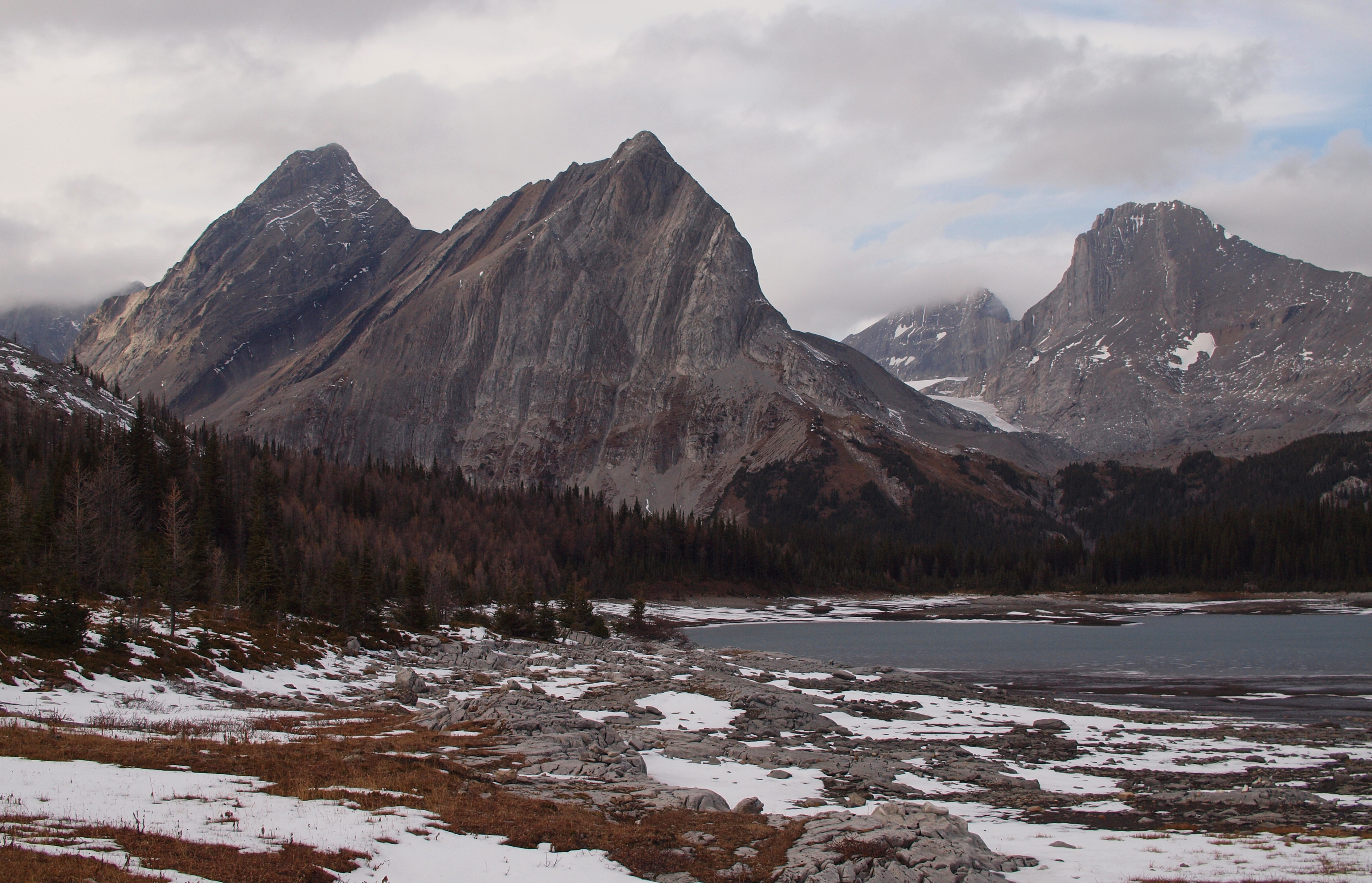 Mount Maude and Mount Jellicoe seen from Turbine Canyon, Kananaskis Country, Alberta Canada